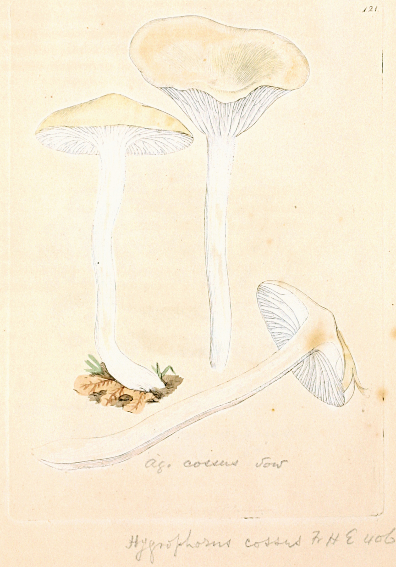 This is a plate from James Sowerby's Coloured Figures of English Fungi or Mushrooms.